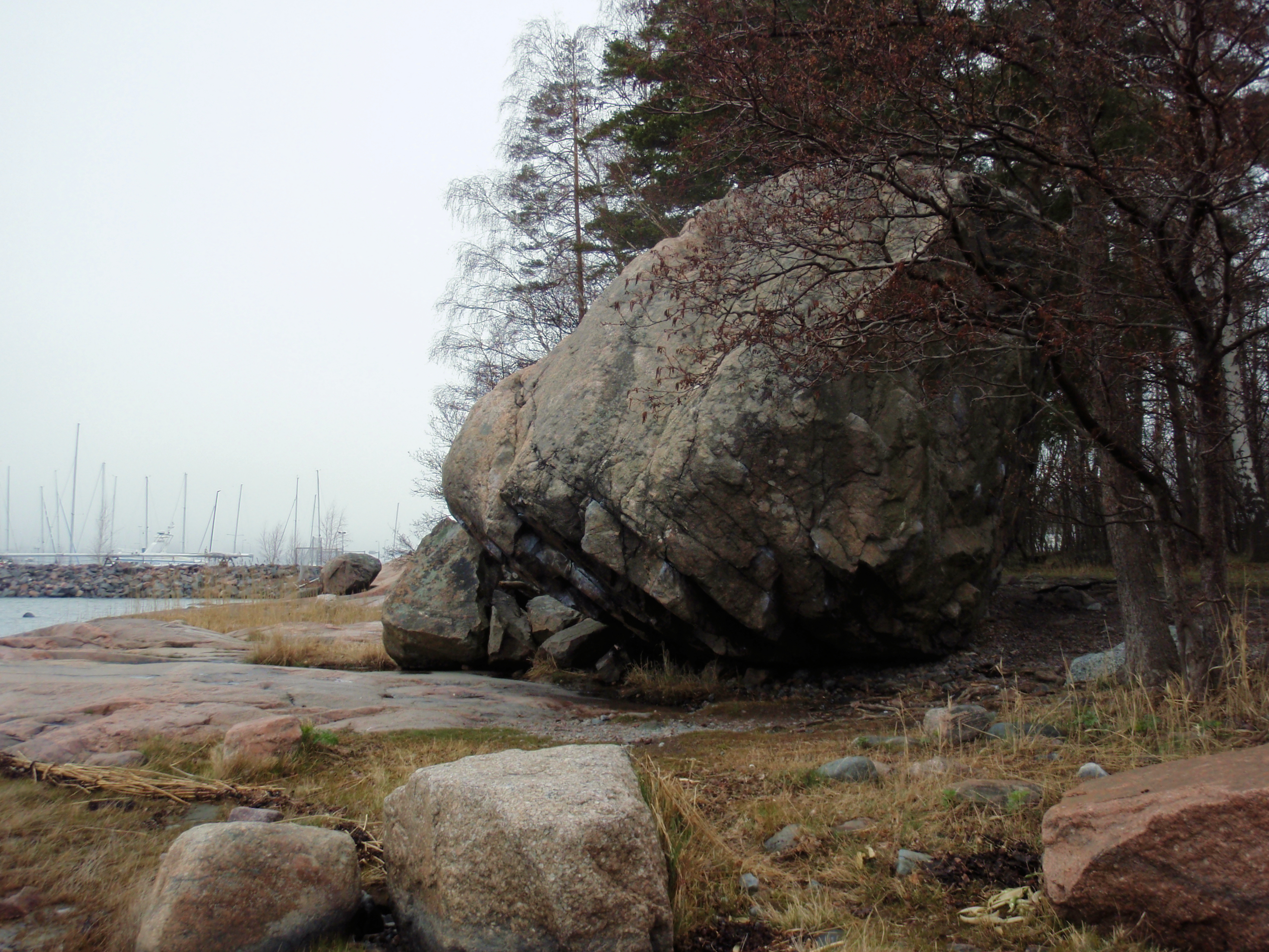 A glacial erratic on Koivusaari island in Helsinki, Finland